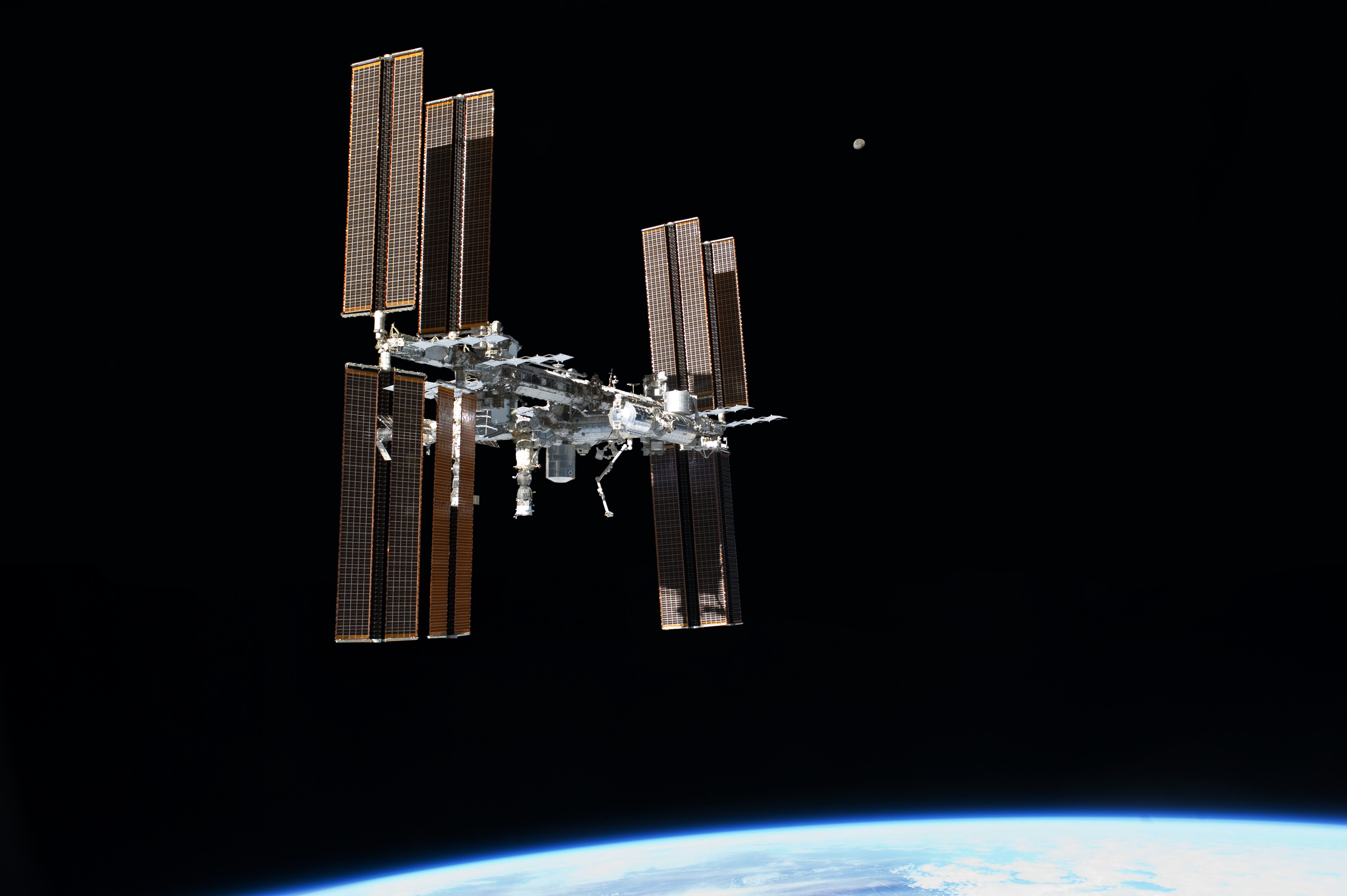 STS-135 final flyaround of ISSThis picture of the International Space Station was photographed from the space shuttle Atlantis as the orbiting complex and the shuttle performed their relative separation in the early hours of July 19, 2011. Onboard the station were Russian cosmonauts Andrey Borisenko, Expedition 28 commander; Sergei Volkov and Alexander Samokutyaev, both flight engineers; Japan Aerospace Exploration astronaut Satoshi Furukawa, and NASA astronauts Mike Fossum and Ron Garan, all flight engineers. Onboard the shuttle were NASA astronauts Chris Ferguson, STS-135 commander; Doug Hurley, pilot; and Sandy Magnus and Rex Walheim, both mission specialists.